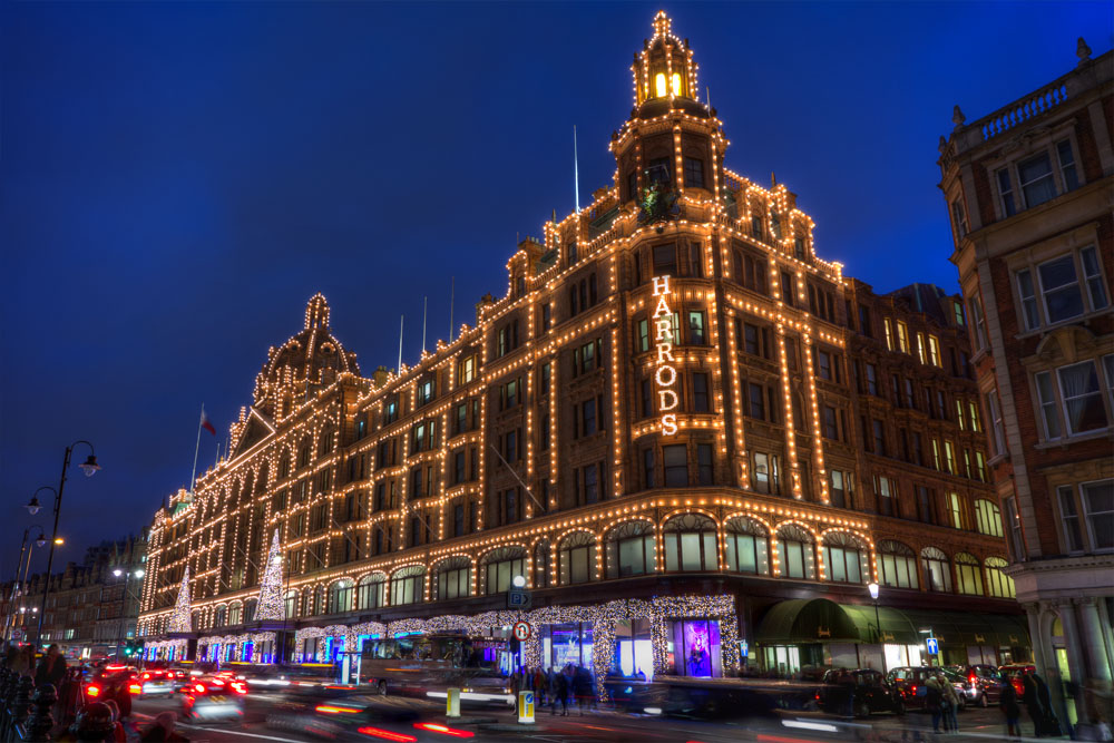 Harrods in London at Christmas time